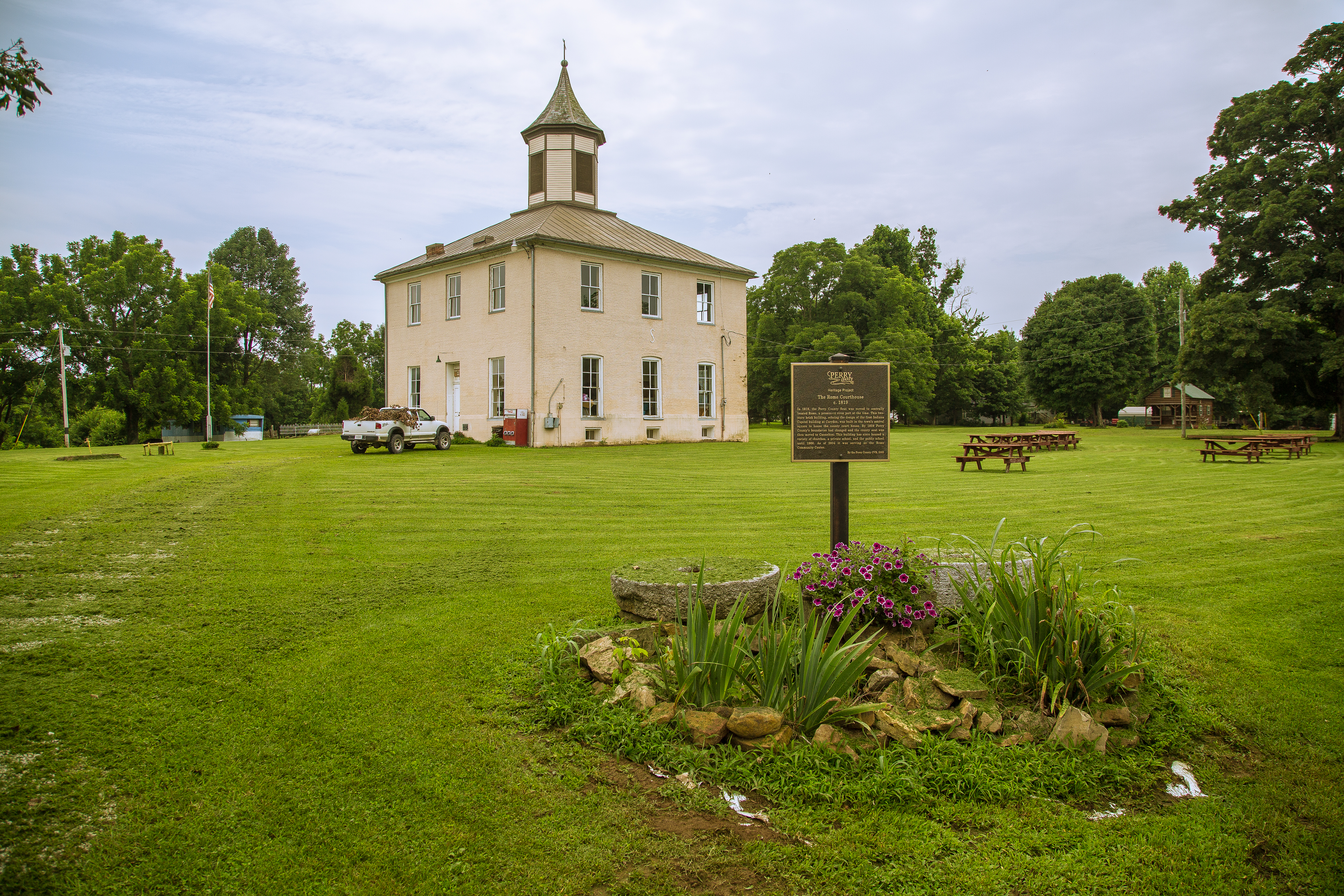 Photo from Small Town Indiana photo survey.